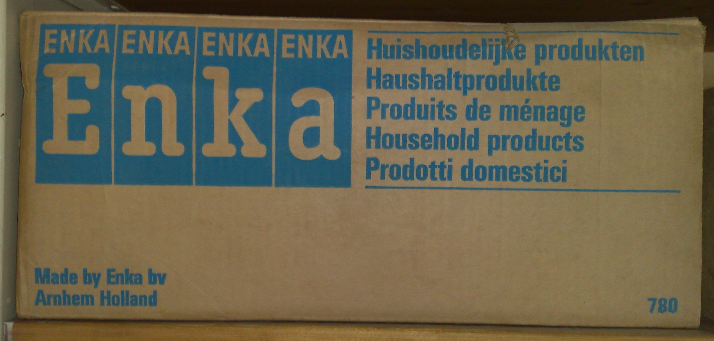 Cardboard box which once contained Enka products.